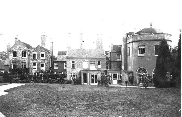 Hagley Hall from the garden side with the octagonal drawing room on the right, a photo taken about 1901